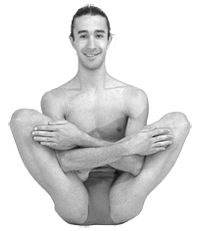 Balasana or Garbhásana